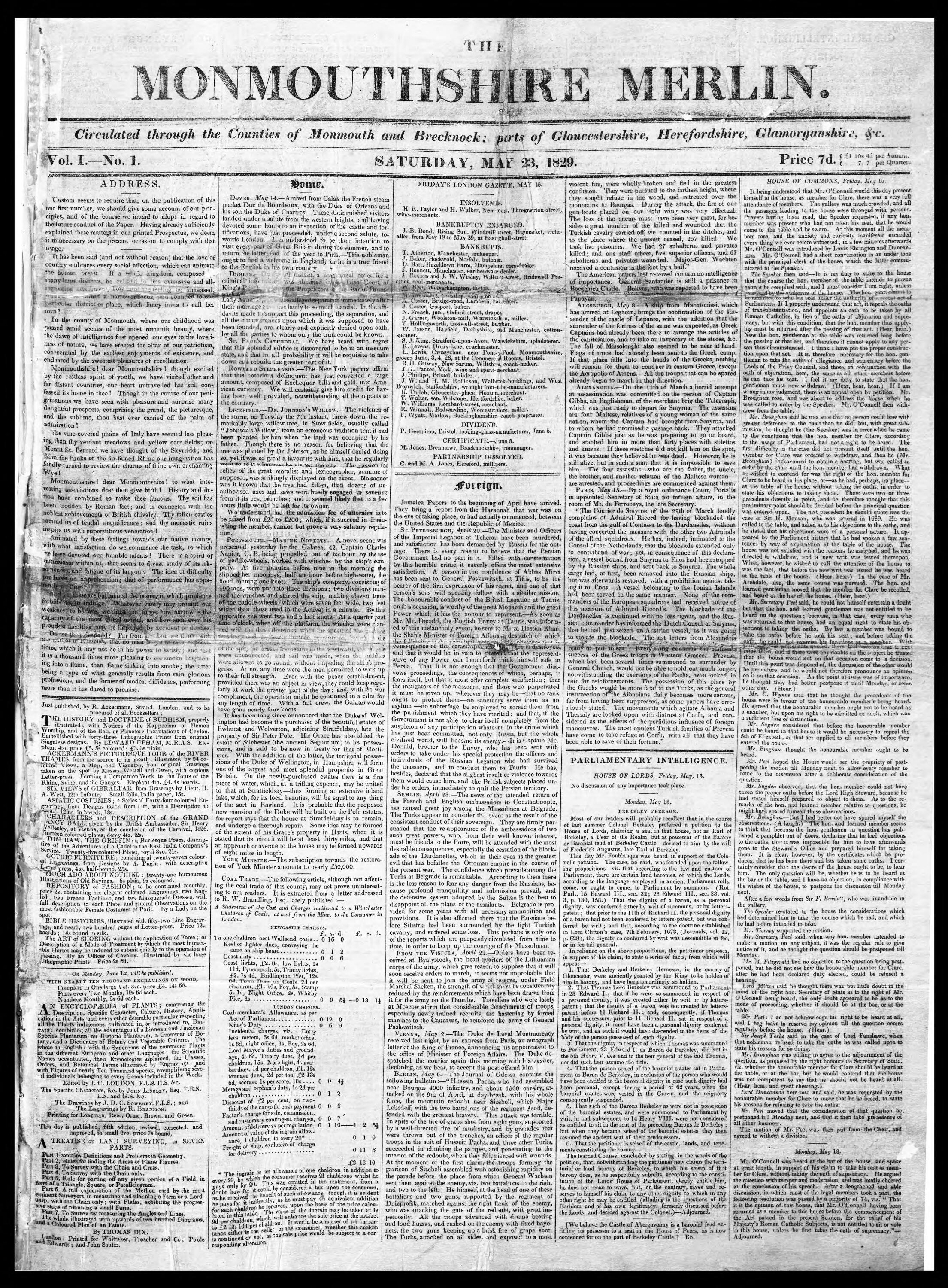 Front page of the earliest surviving copy of the Welsh newspaper The Monmouthshire Merlin